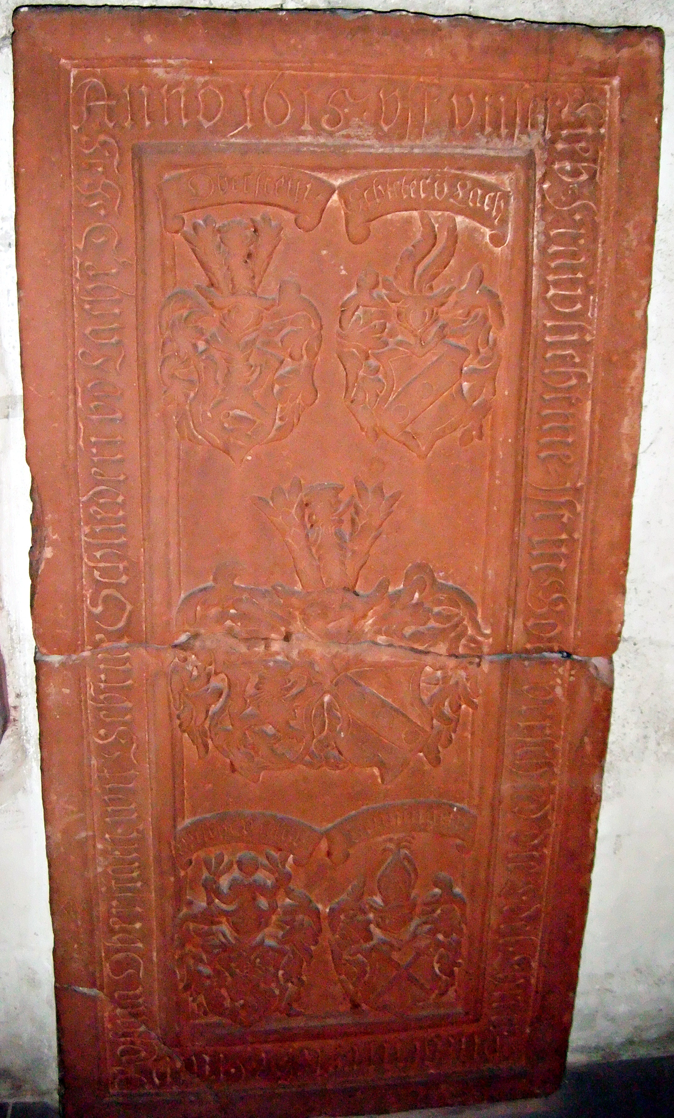 Grabplatte Rosina von Oberstein geb. Schliederer von Lachen (1544–1615) (Gattin des Rudolf von Oberstein), Liebfrauenkirche Worms